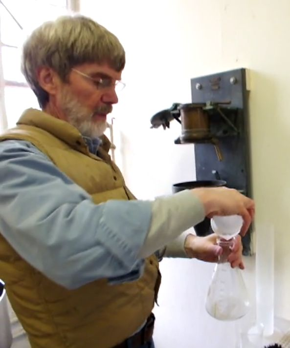 Tim Barrett demonstrating use of a Freeness Tester, at the UICB Research and Production Paper Facility.